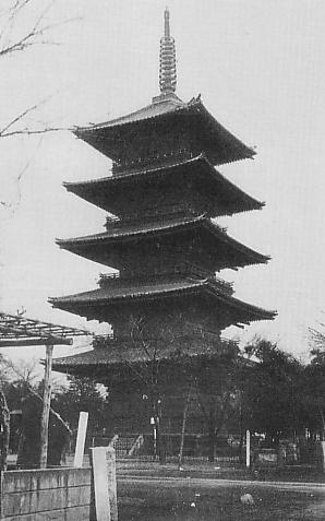 Yanaka Five-Storied Pagoda